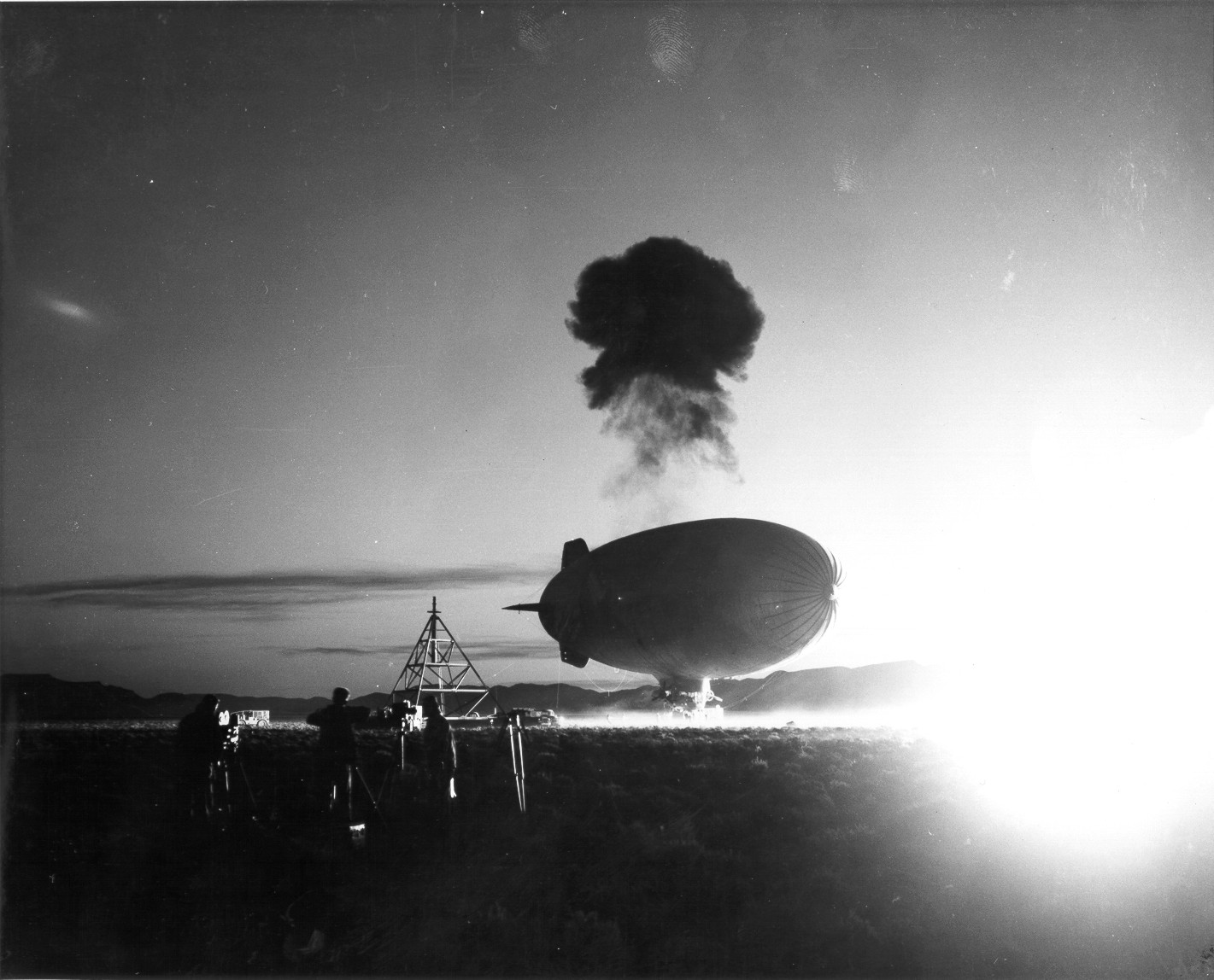 Operation Plumbbob - Franklin cloud and blimp illuminated by flare.